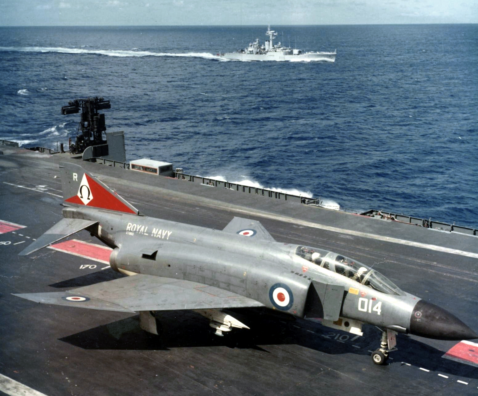 A Royal Navy McDonnell Douglas Phantom FG.1 from 892 Naval Air Squadron aboard the aircraft carrier HMS Ark Royal (R09). The frigate in the background is possibly HMS Tenby (F65) or HMS Berwick (F115).